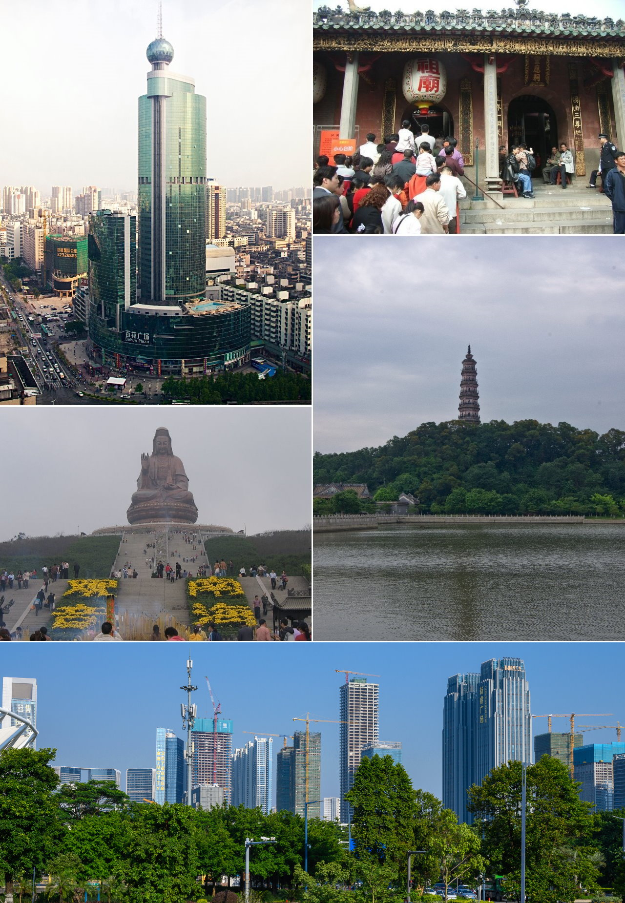 Montage of various Foshan images